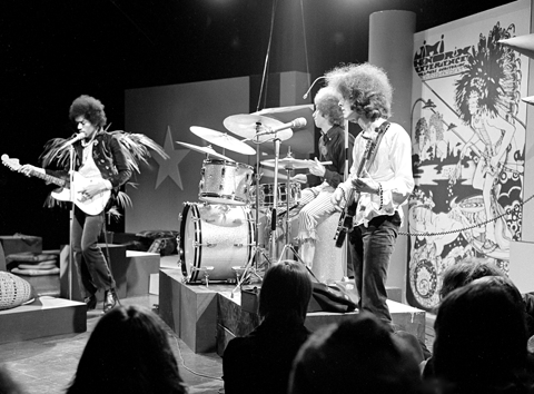 The Jimi Hendrix Experience performs for Dutch television show Hoepla in 1967.